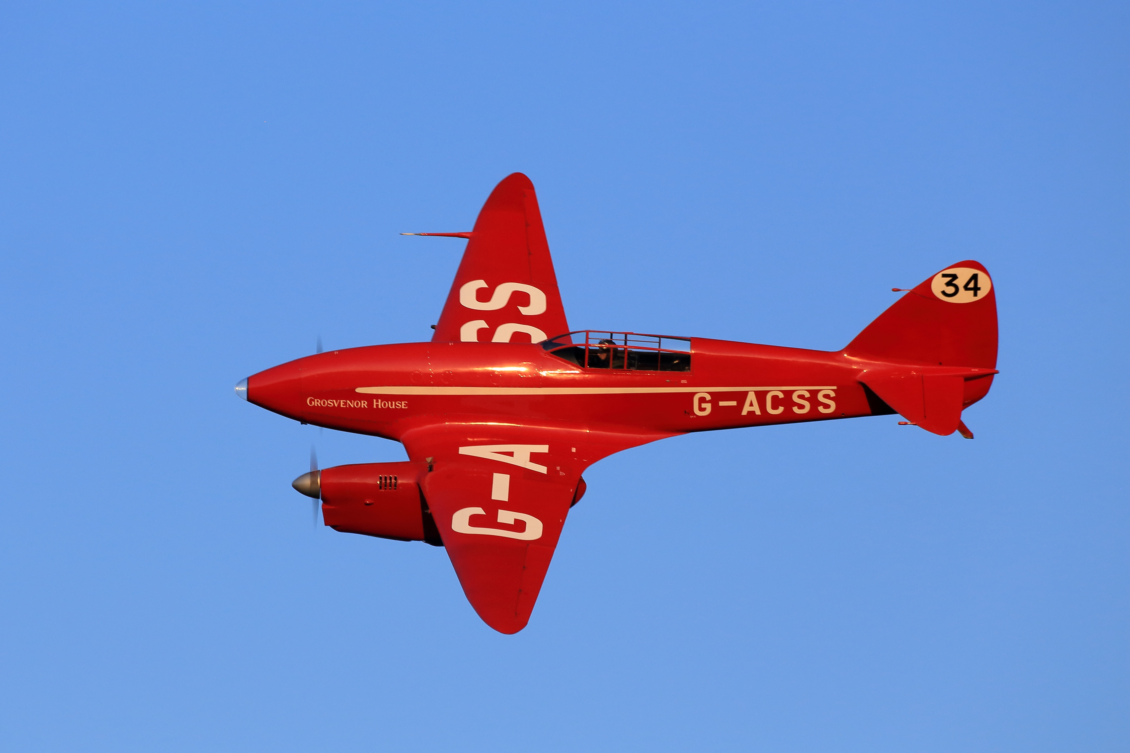 Shuttleworth Collection, Shuttleworth Pageant Air Display, Old Warden, 2014-09-07